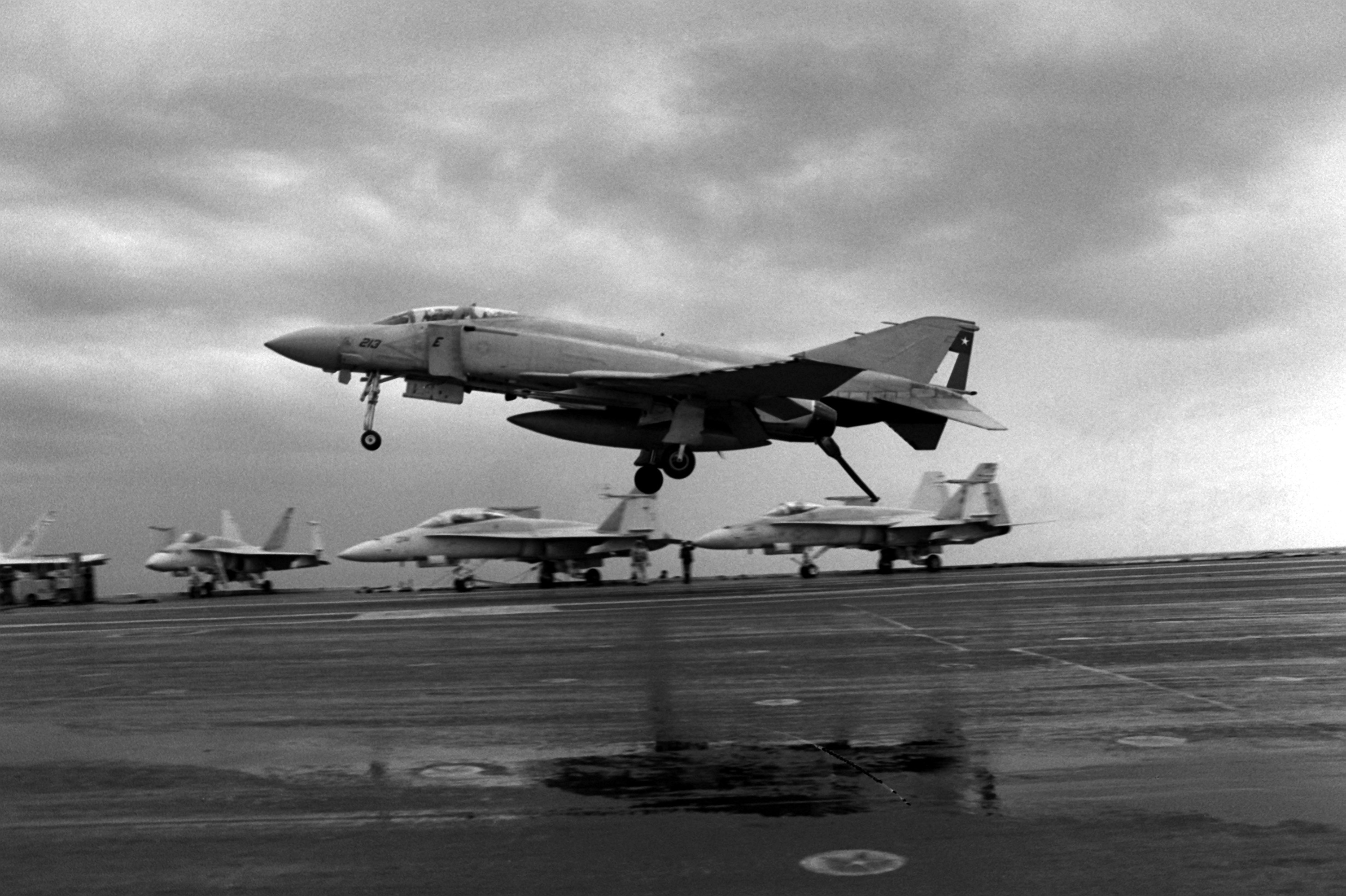 A U.S. Naval Air Reserve McDonnell Douglas F-4S Phantom II aircraft from fighter squadron VF-202 Superheats lands aboard the aircraft carrier USS America (CV-66) on 18 October 1986. This was the last operational landing by a U.S. Navy F-4 aboard a U.S. aircraft carrier, piloted by Commander George "Black George" Kraus. VF-202, the last U.S. Navy unit to fly the F-4, then transitioned to the Grumman F-14A Tomcat.